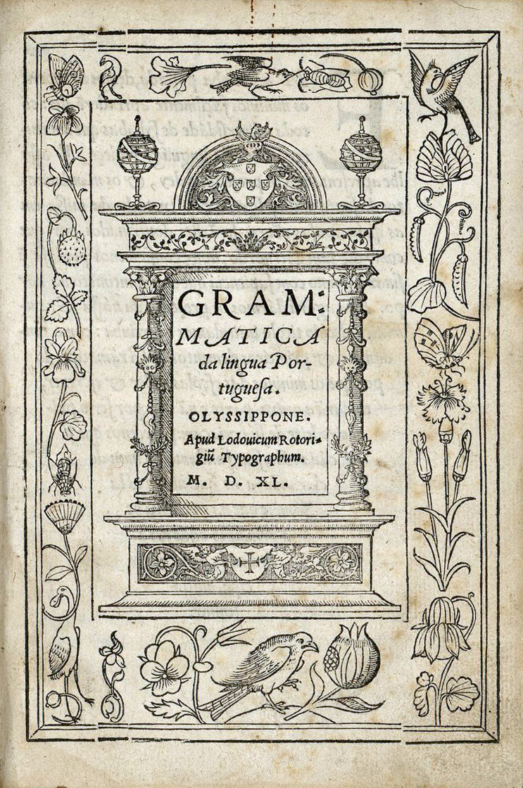 Frontispiece of Grammatica da lingua portuguesa, published in 1540